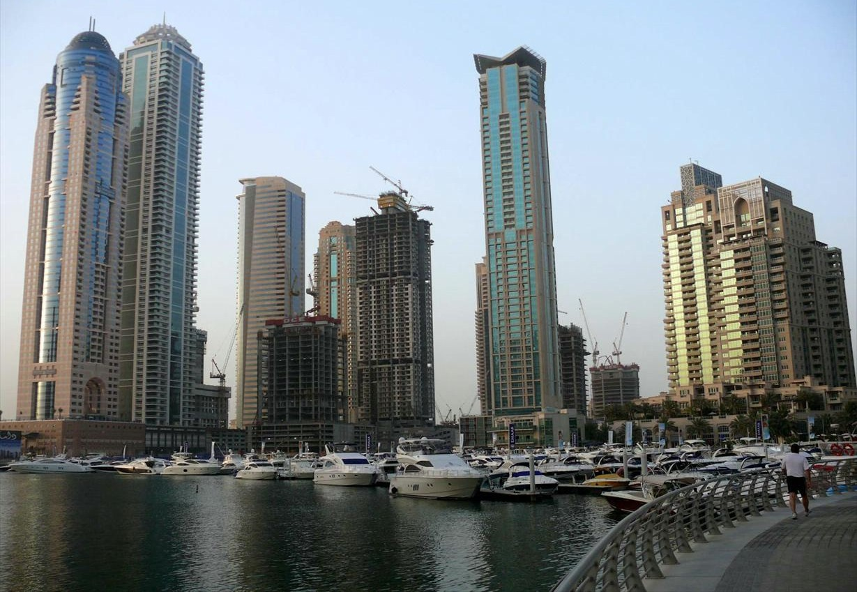 This is a photo showing some of the buildings in Dubai Marina in Dubai, United Arab Emirates, on 5 May 2008.